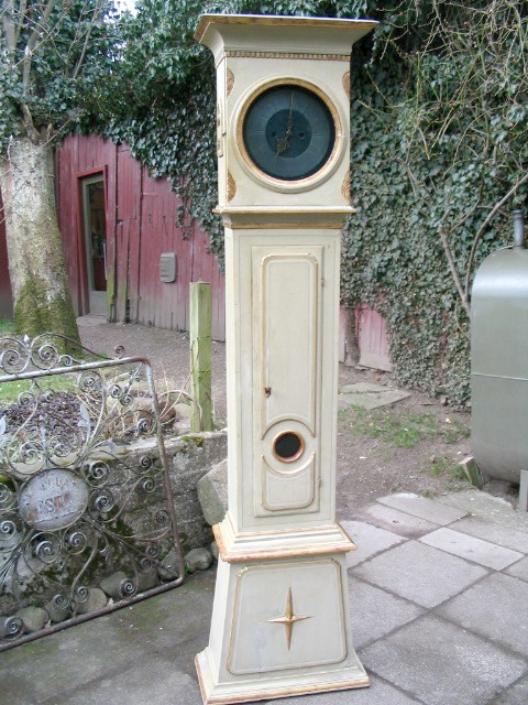 Bornholm clock (a longcase clock type originally made on Bornholm, Denmark). This case is rebuilt sometime in the 20th century